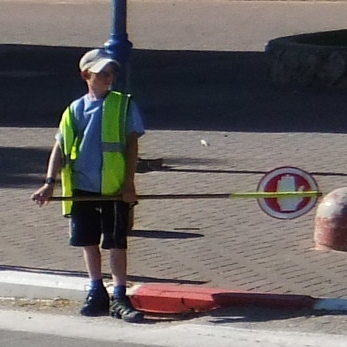 Children crossing guards in Israel Ofra